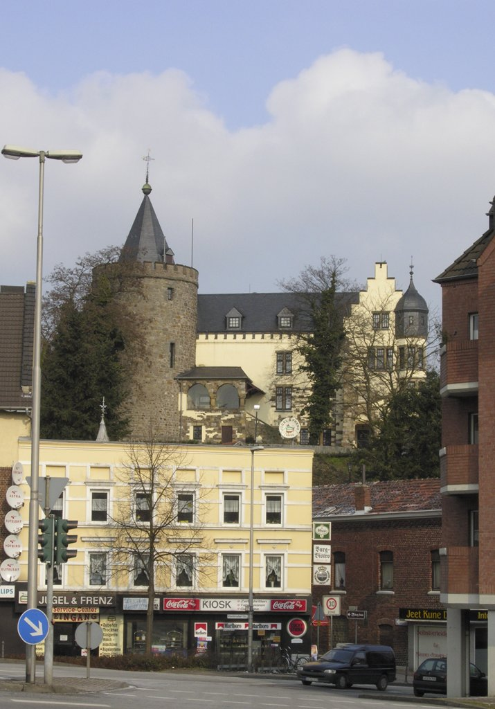 Fortress Burg Rode in Herzogenrath, Germany